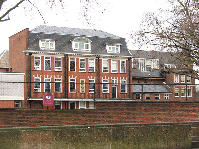 St Saviour's & St Olave's school (2) An Anglican girls' high school in Southwark. This is the southern end of the site at the corner of New Kent Road and Bartholomew Street. See also 1764522.